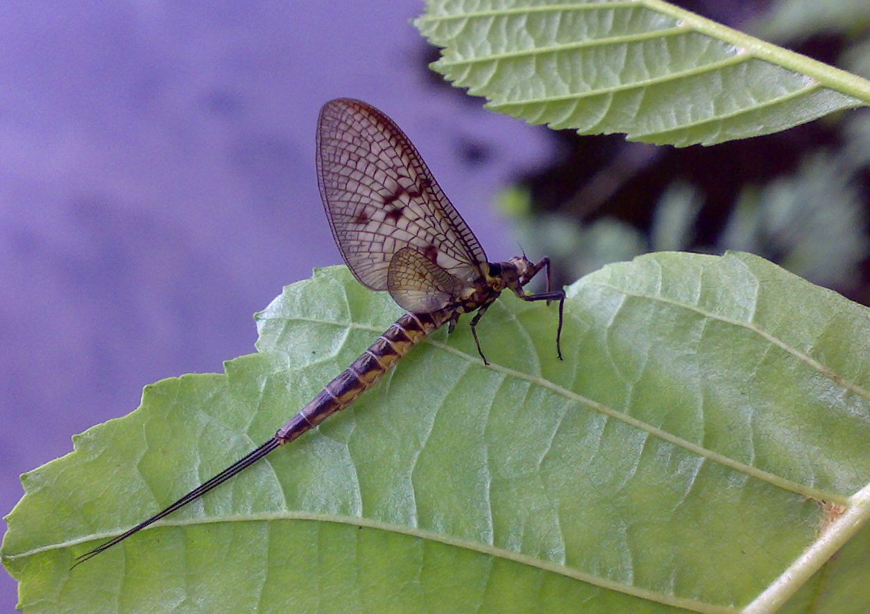 E. Vulgata female